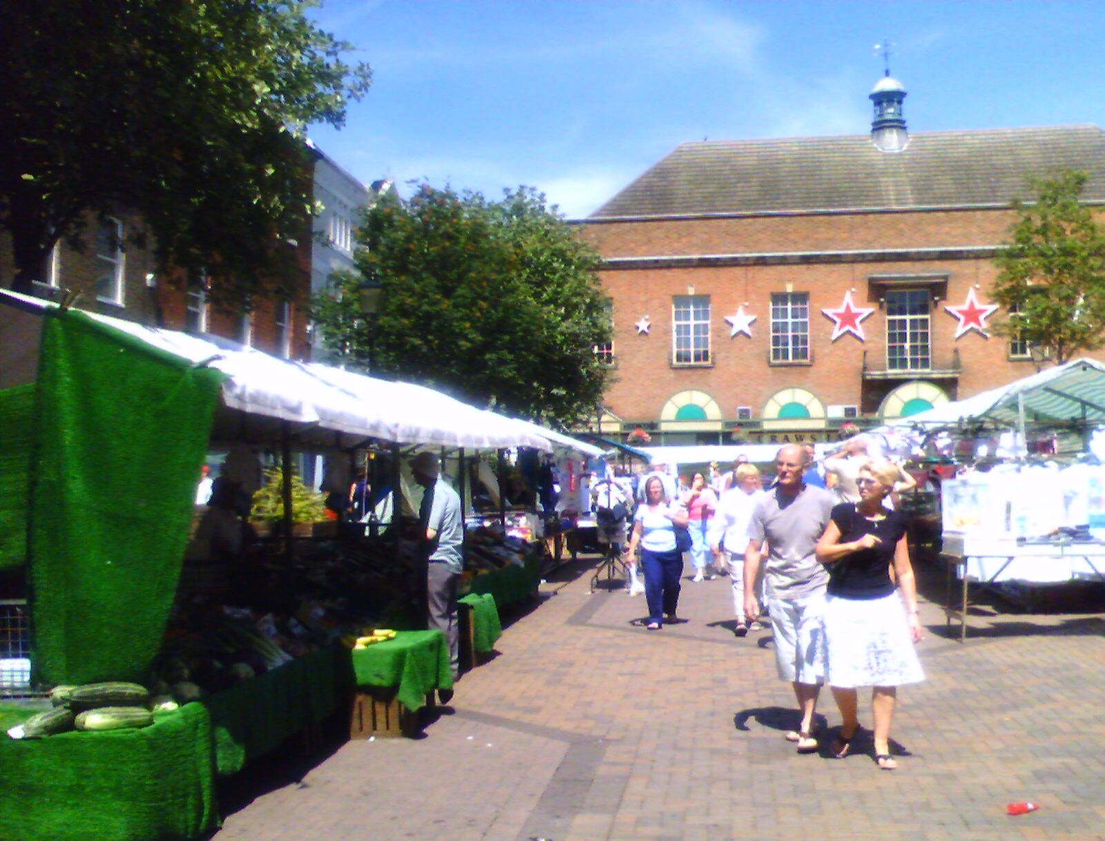 Gainsborough Marketplace during a market day (Tuesday). Photo by E Asterion u talking to me?